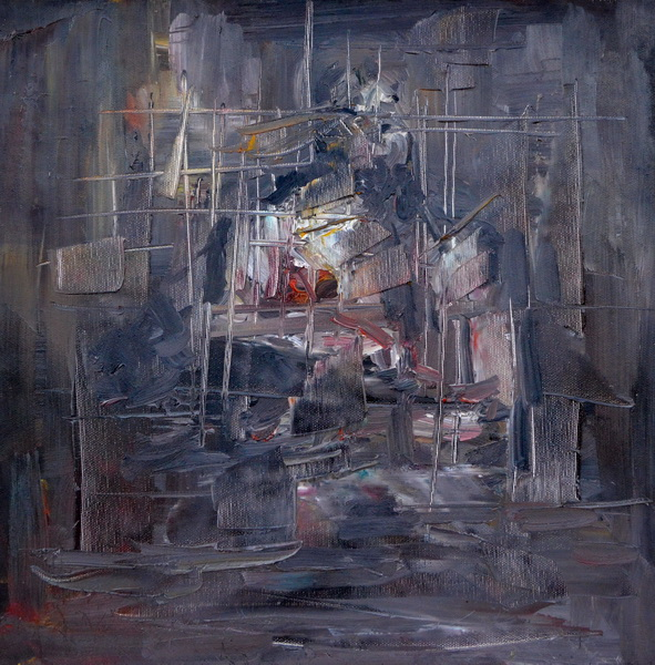 One segment of Goran`s artwork are religious art pieces, representing scenes from Bible in a mystical manner.